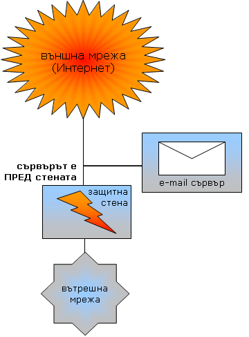 Firewall is located behind the server (in Bulgarian).